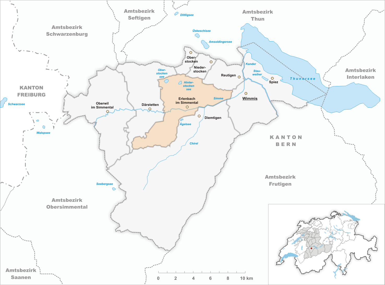 Municipality Erlenbach im Simmental